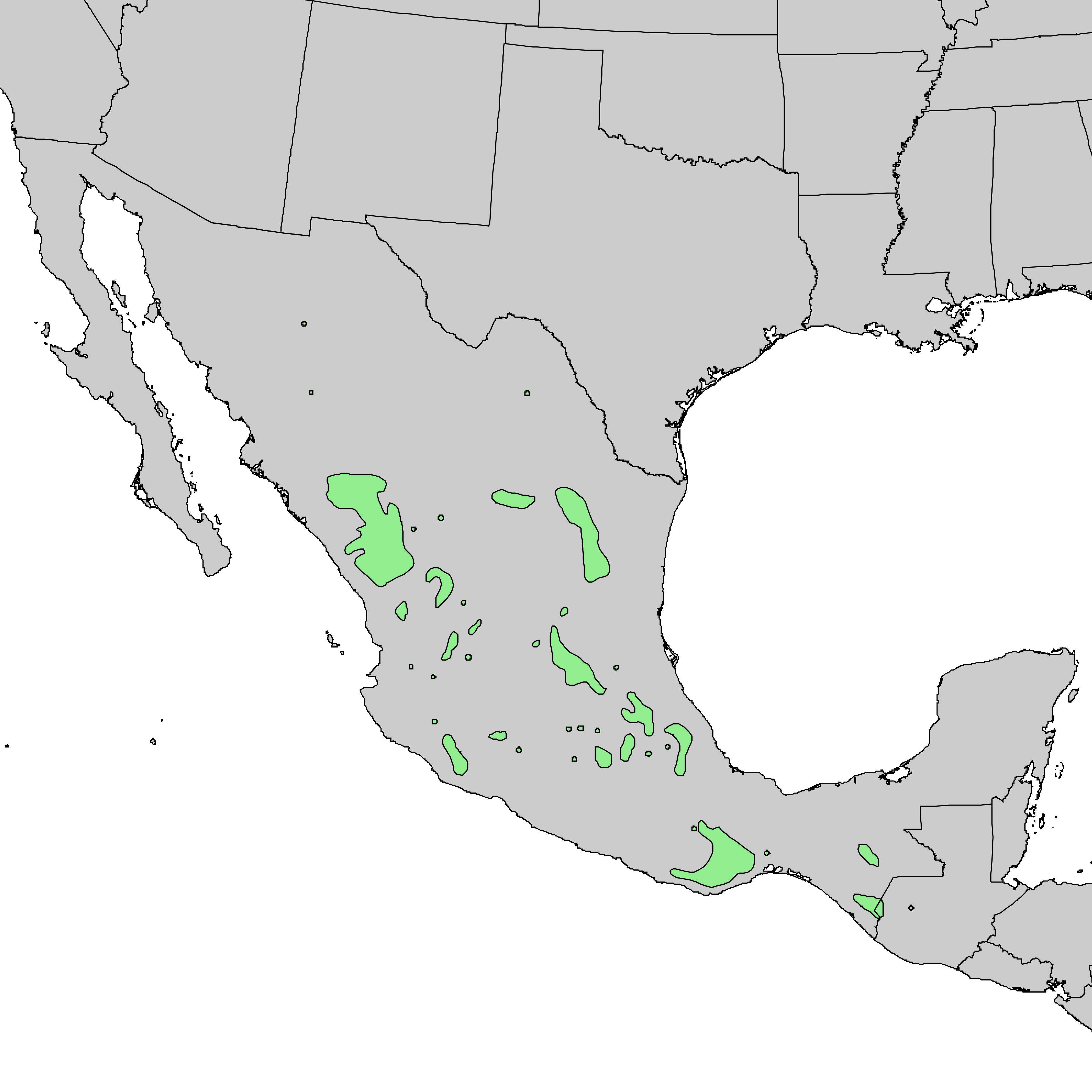 Natural distribution map for Pinus teocote